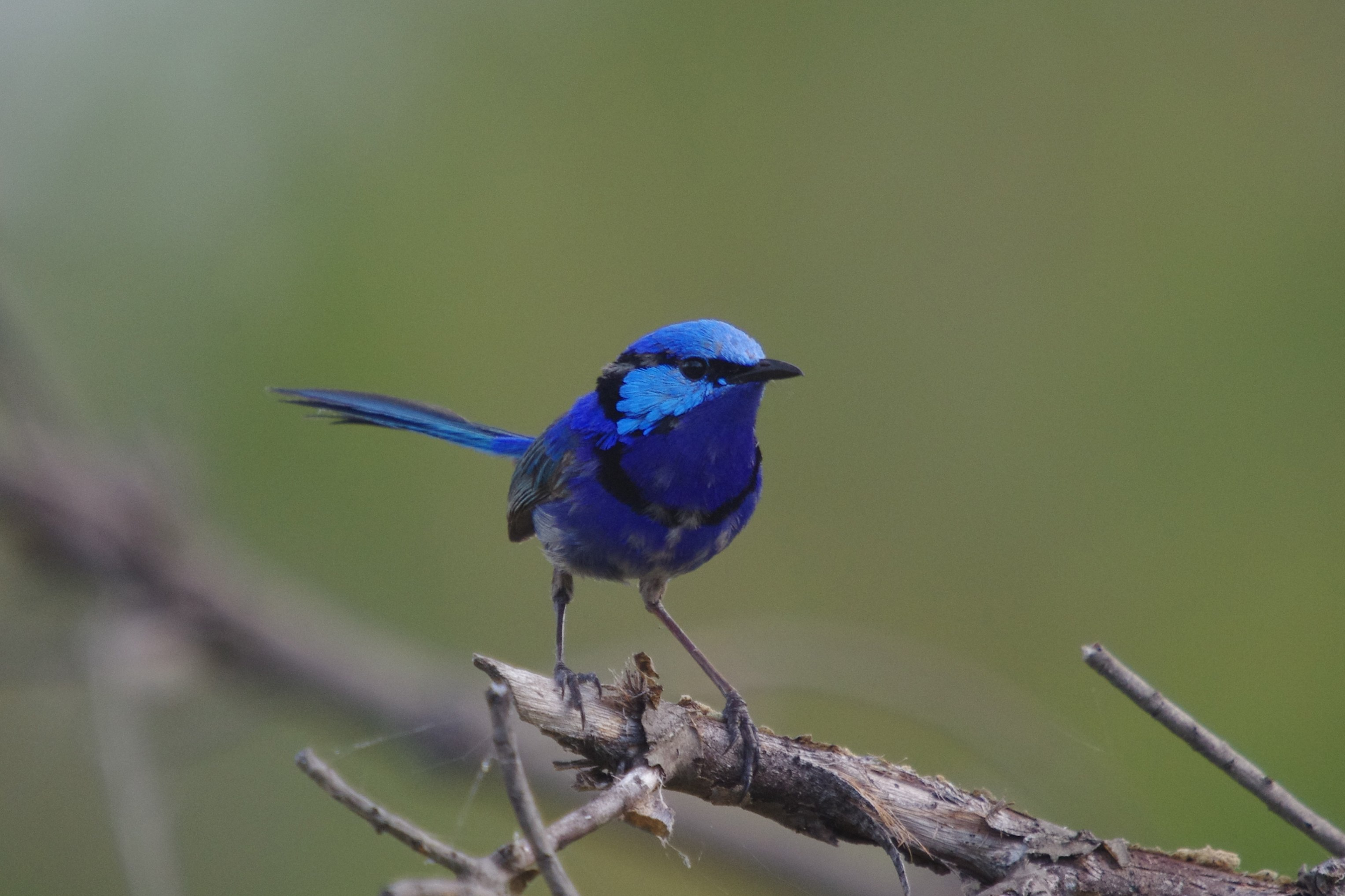 A male Splendid Fairy-wren, near Yangebup Lake, Yangebup, Western Australia, Australia.